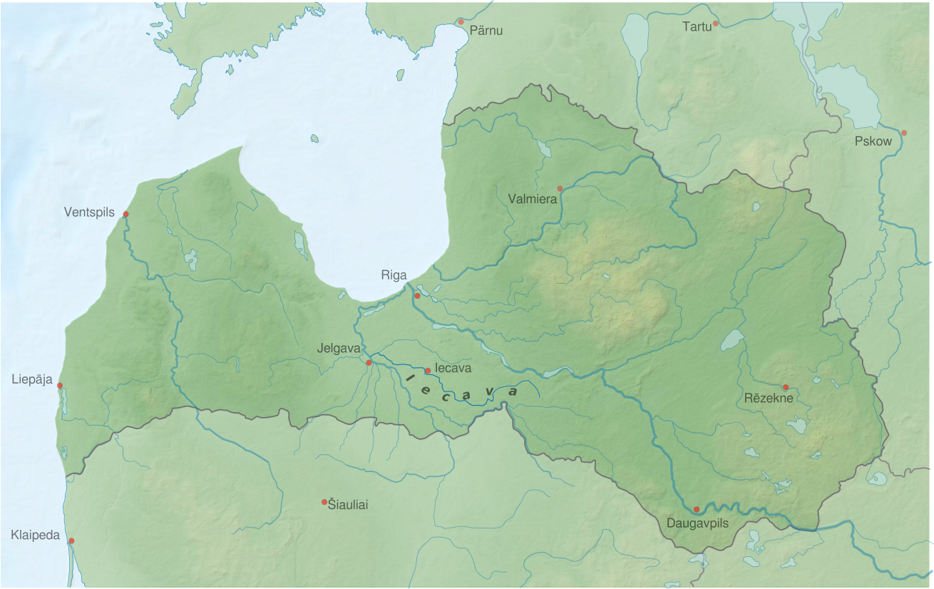 Map of river Iecava in Latvia based on relief-location maps by users: NNW, Виктор В, Alexrk2, Chumwa, Karlis